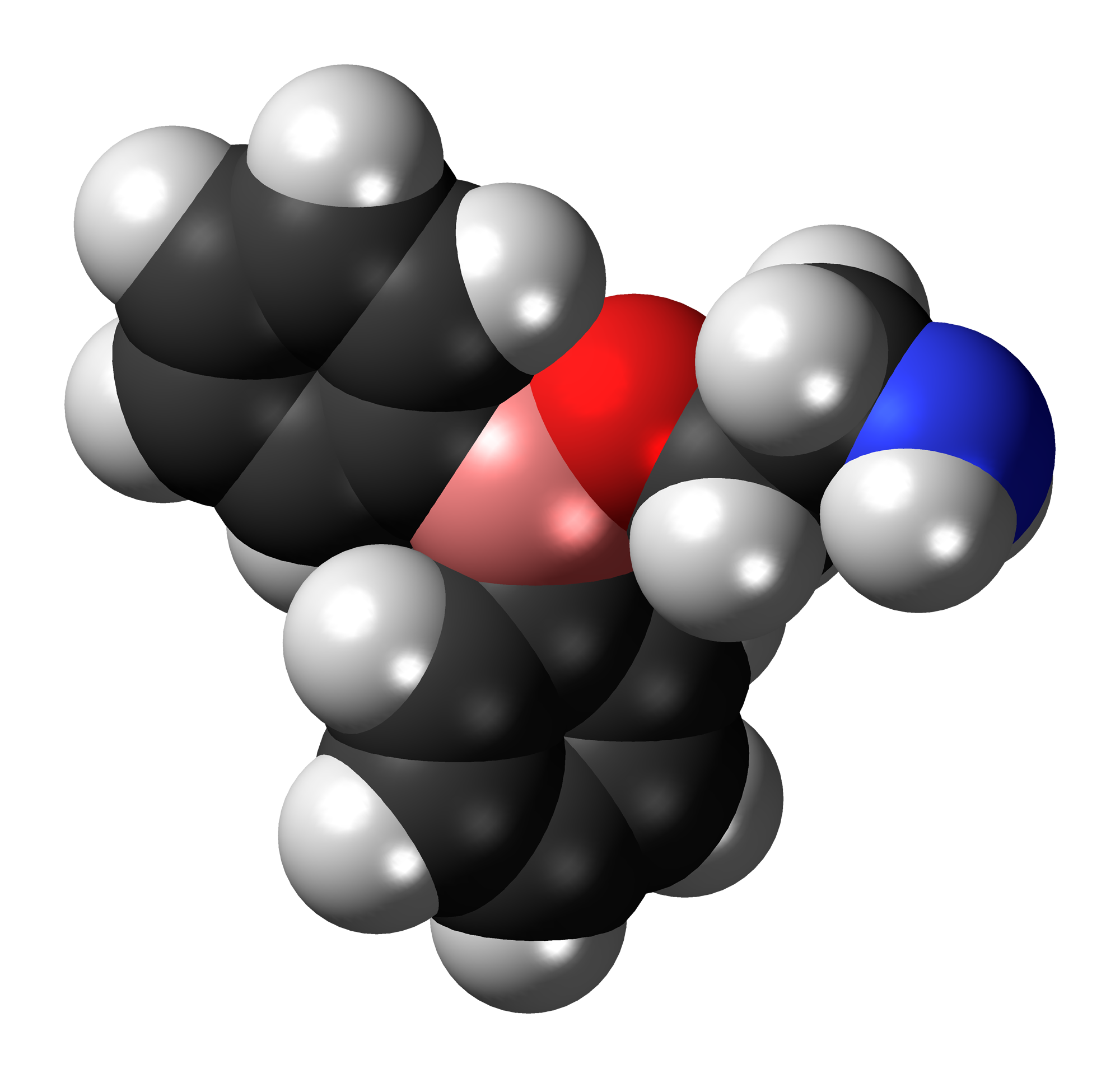 Space-filling model of the 2-aminoethoxydiphenyl borate molecule. Colour code: Carbon, C: black Hydrogen, H: white Oxygen, O: red Nitrogen, N: blue Boron, B: pink